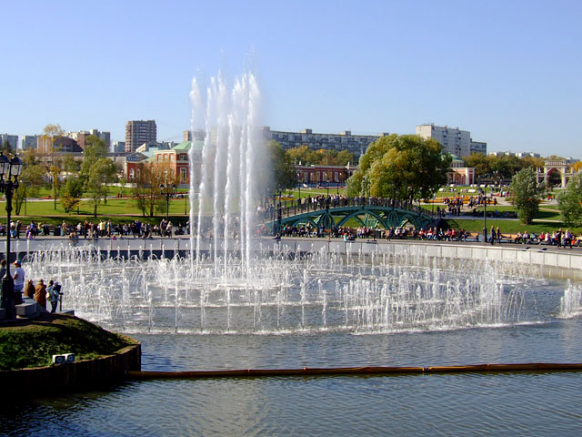 Tsaritsino park